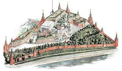 Overview map of the Moscow Kremlin. Location of Srednyaya Arsenalnaya Tower marked.